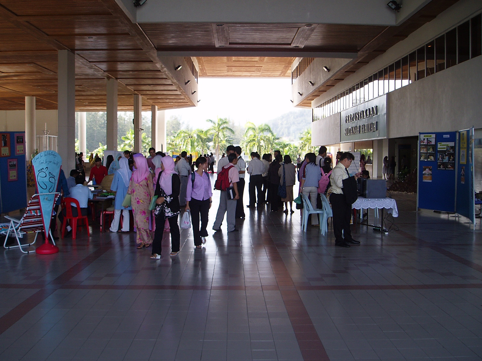 Northern University of Malaysia, Sintok, Kubang Pasu, Kedah, MalaysiaBahasa Melayu: Universiti Utara Malaysia, Sintok, Kubang Pasu, Kedah, Malaysia